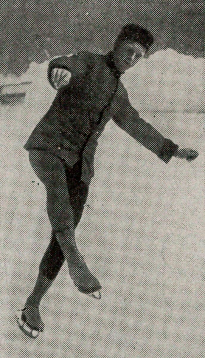 Bror Meyer, as pictured in Irving Brokaw's book The Art of Skating.